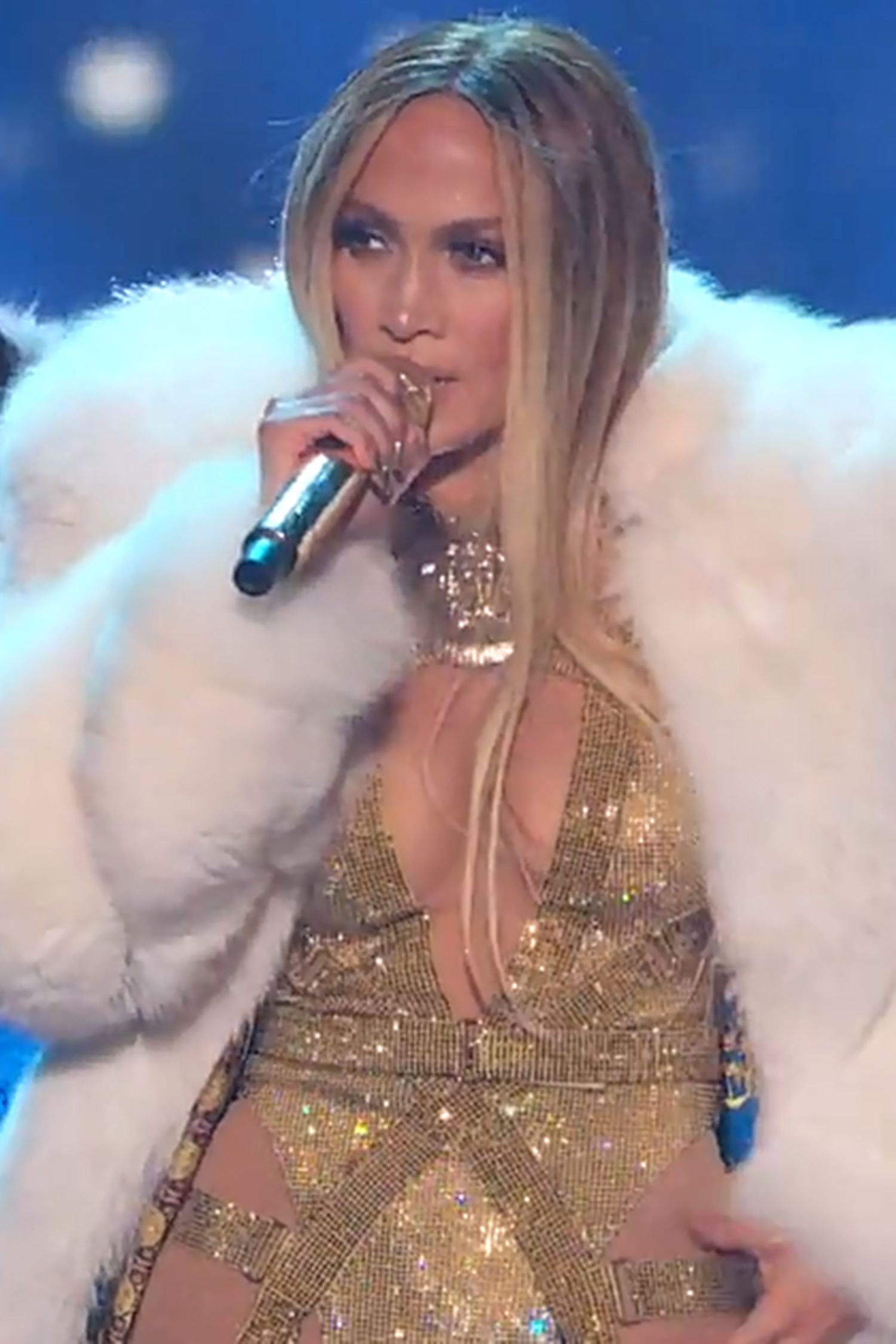 Jennifer Lopez performing at the Video Music Awards in New York City, on August 20, 2018.